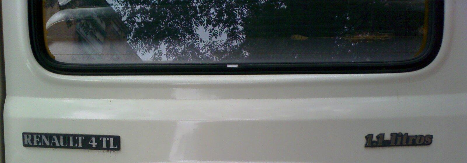 spanish badge on a Renault 4 from a in-spain-built Renault